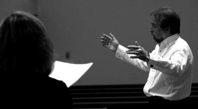 Axel Theimer conducting. Own work, release into public domain